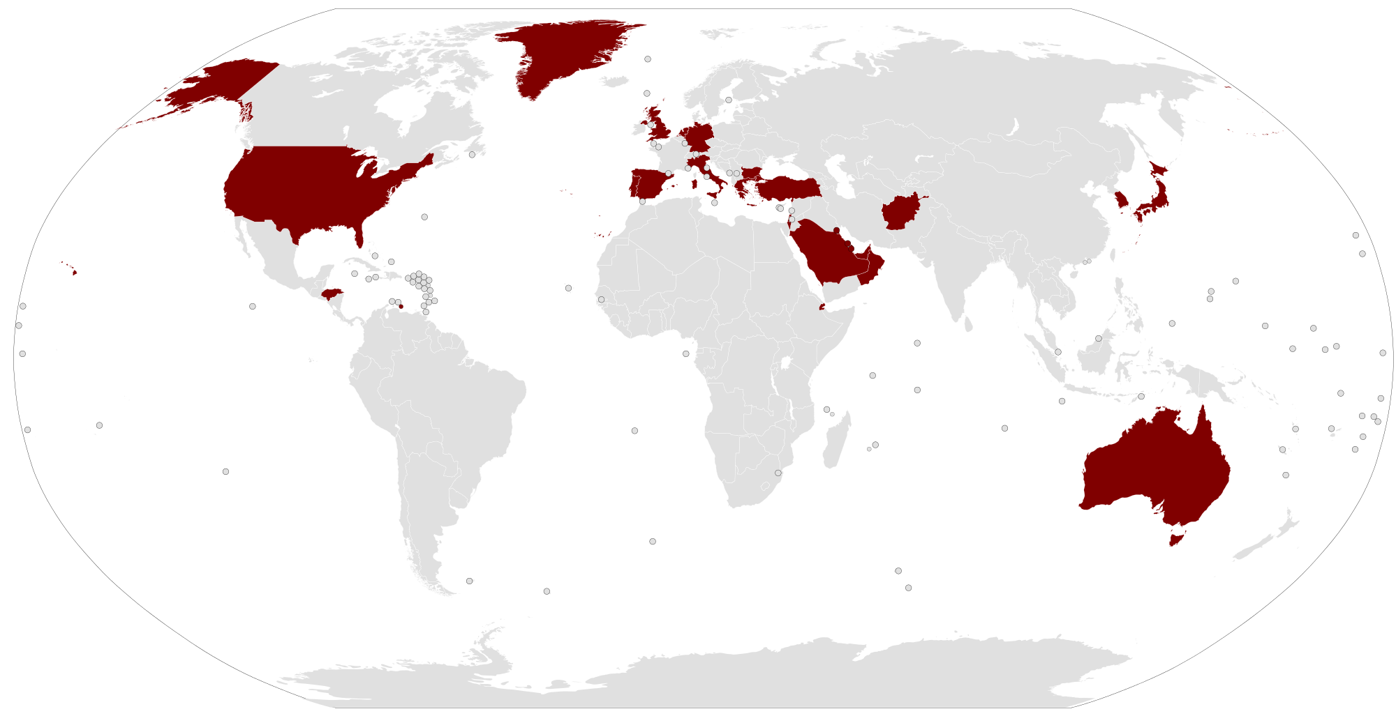 Source and other debate for the article